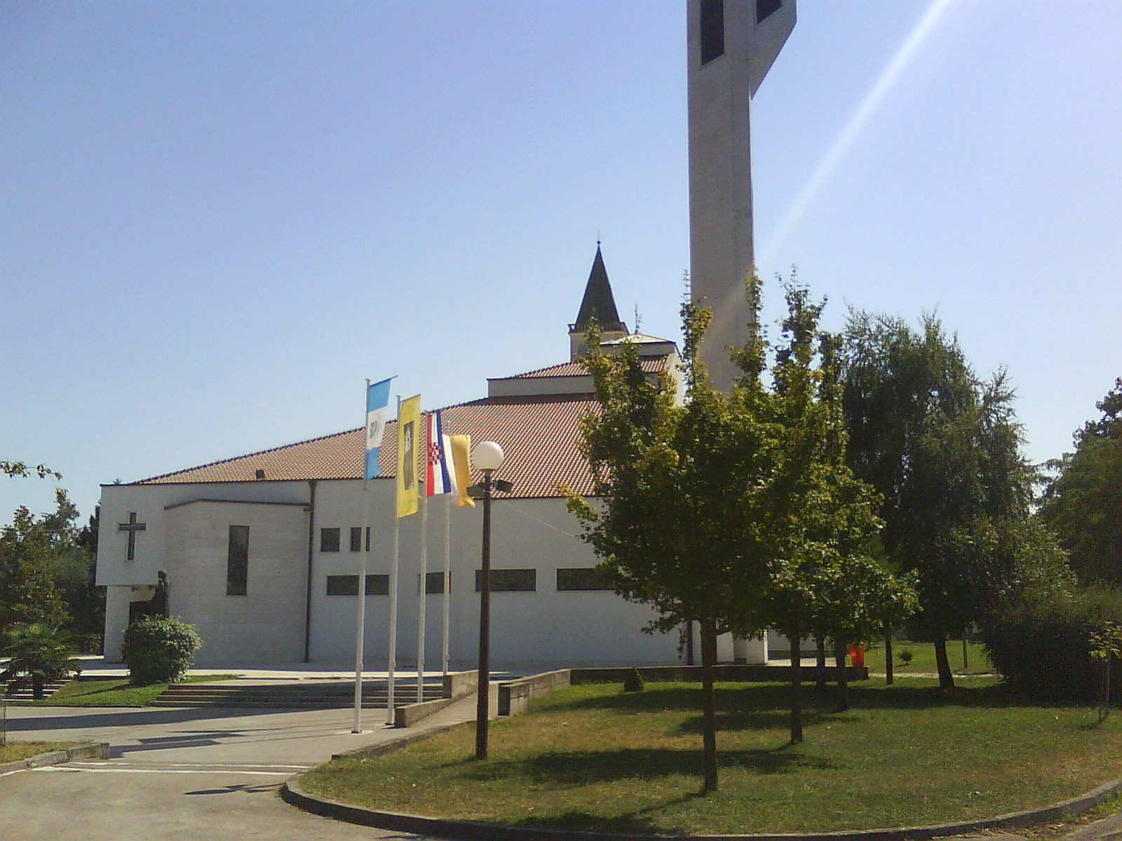 St.Anthony of Padua shrine in Ljubuški